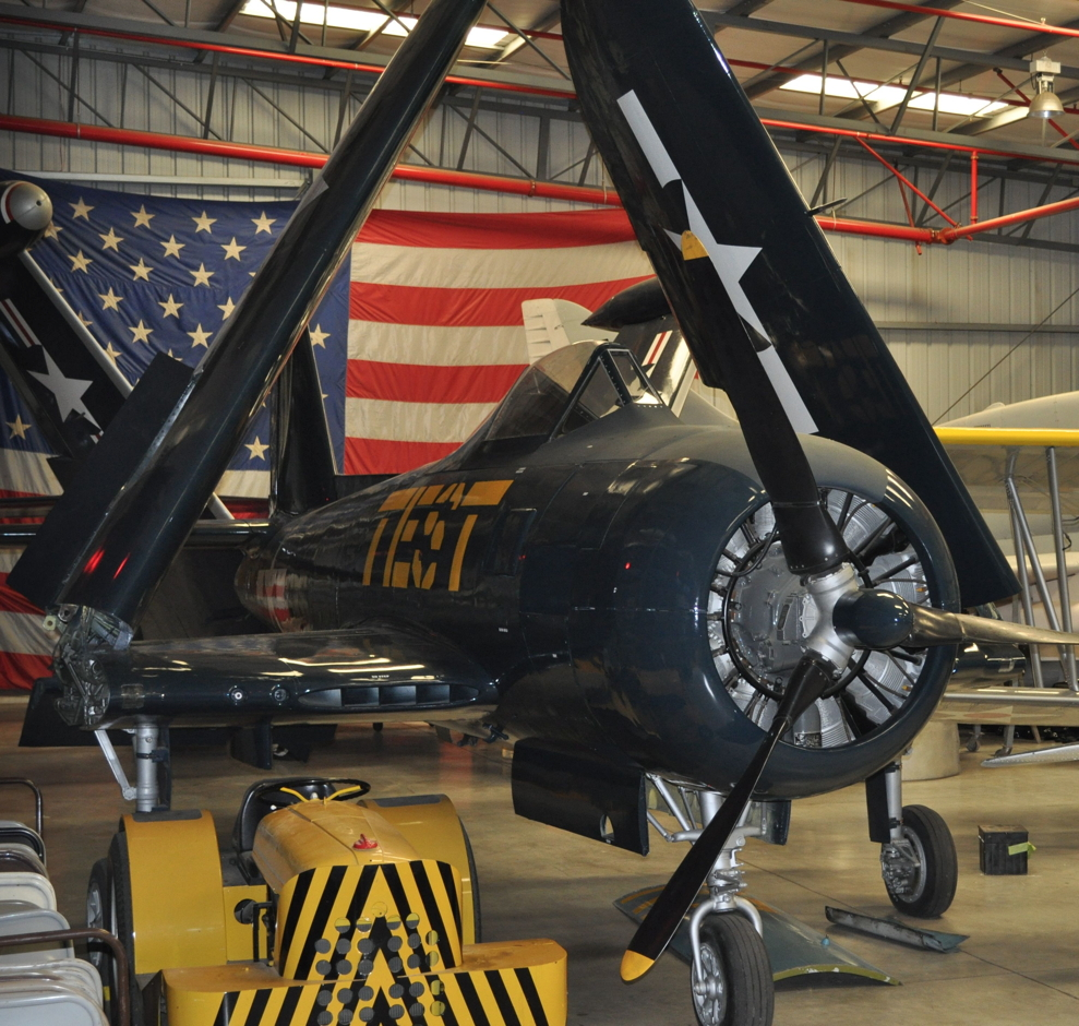 Front quarter view of Ryan FR-1 Fireball in the Planes of Fame museum in Chino, CA